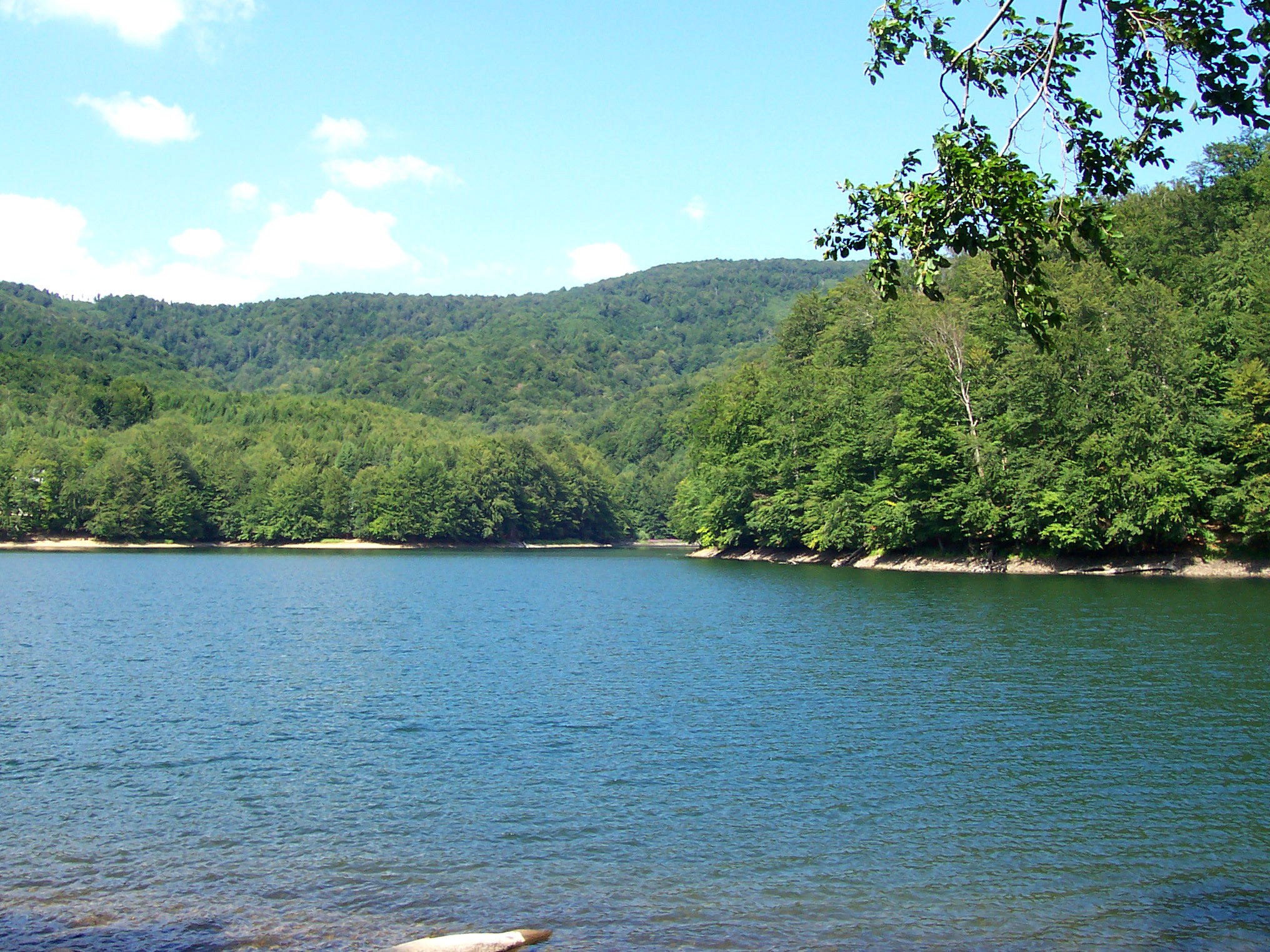 Morské Oko Lake at Vihorlatské Hills. Zemplín Region, Slovakia